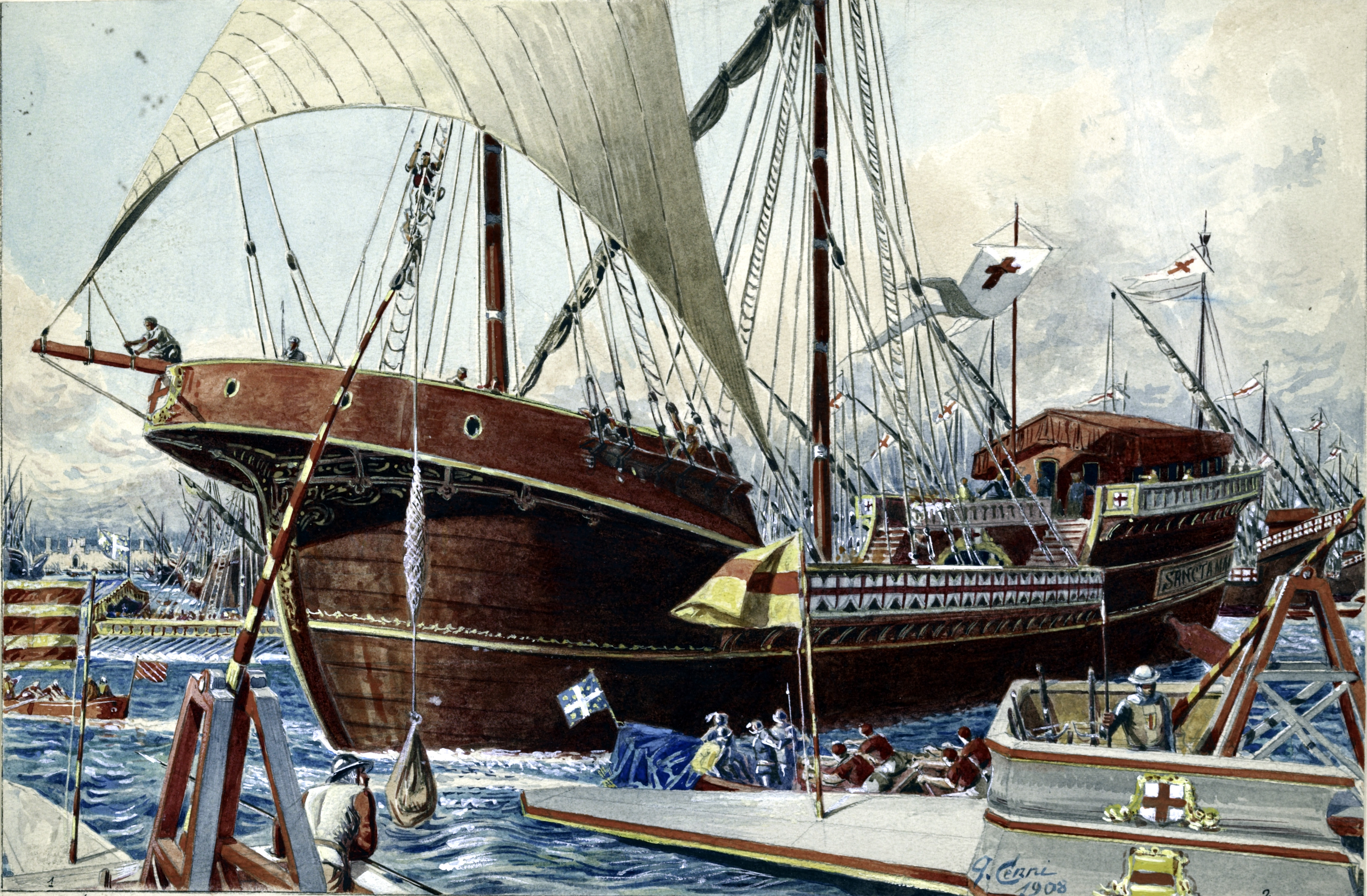 A Genoese nave (large sailing ship), 13th-14th centuries